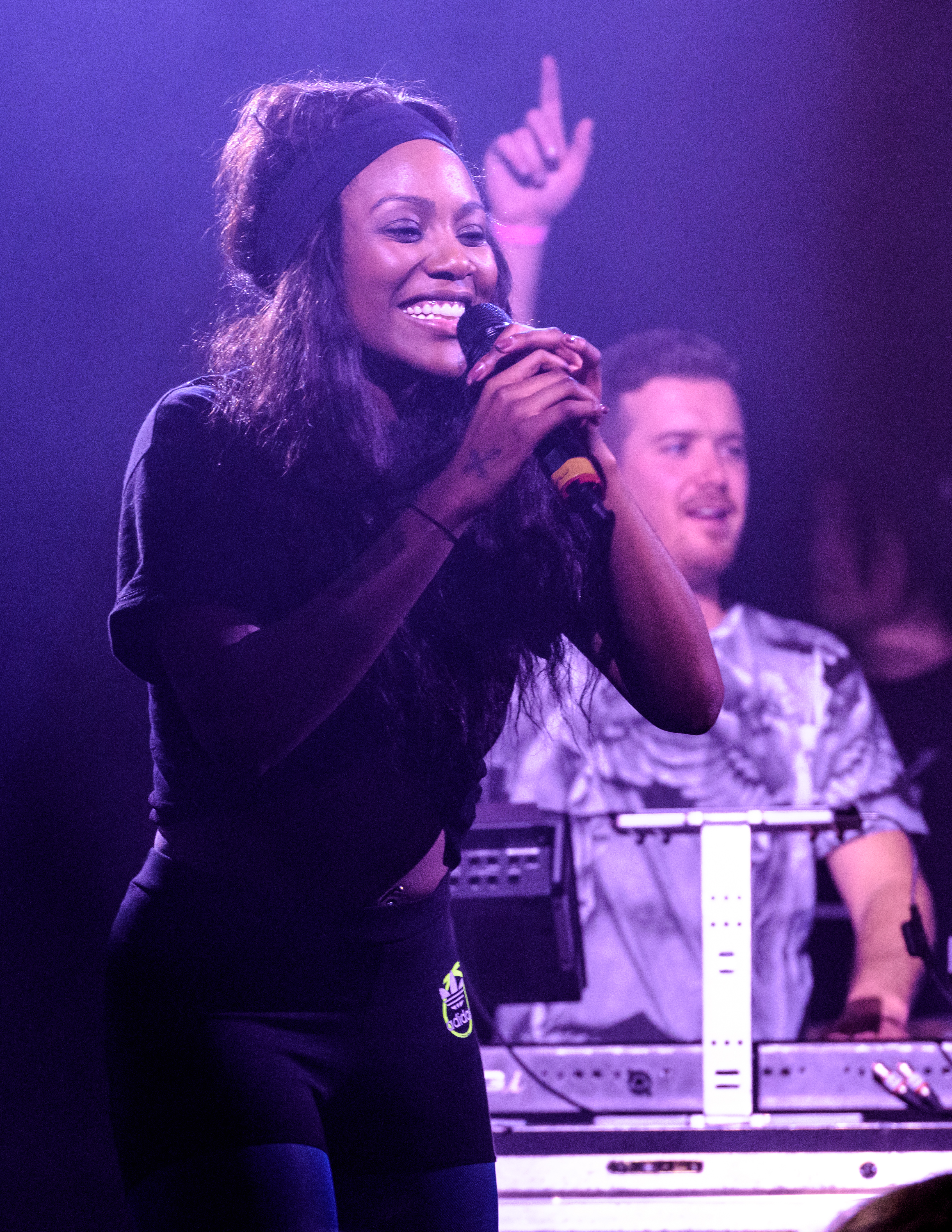 Lulu James Gorgon City - Irving Plaza in 2015